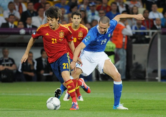 David Silva and Leonardo Bonucci at Euro 2012 final Spain-Italy